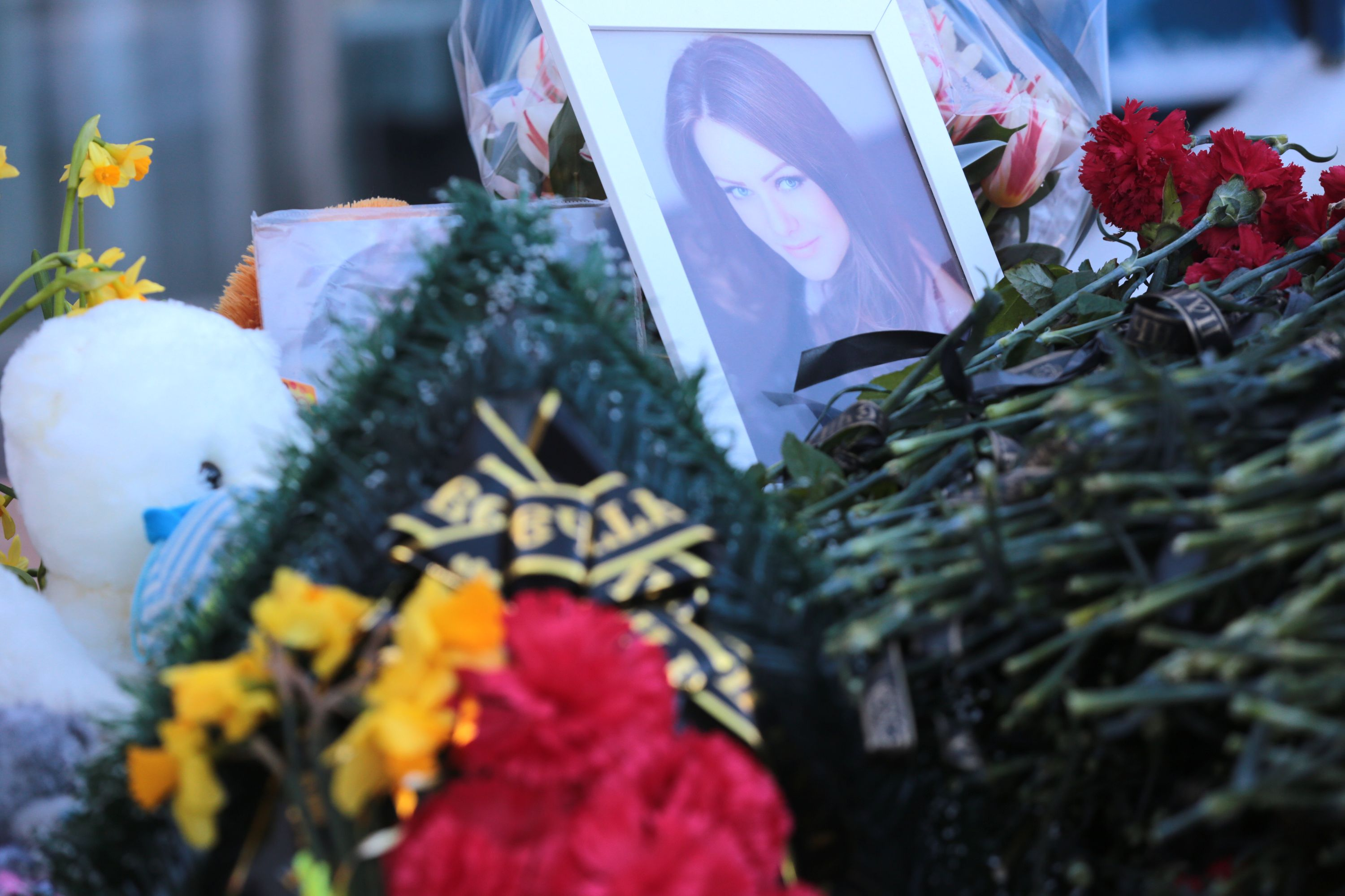 Memorial at Rostov-on-Don Airport for victims of Flydubai Flight 981